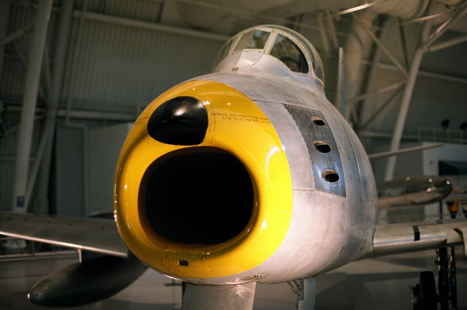 The Front of a F86 Sabre